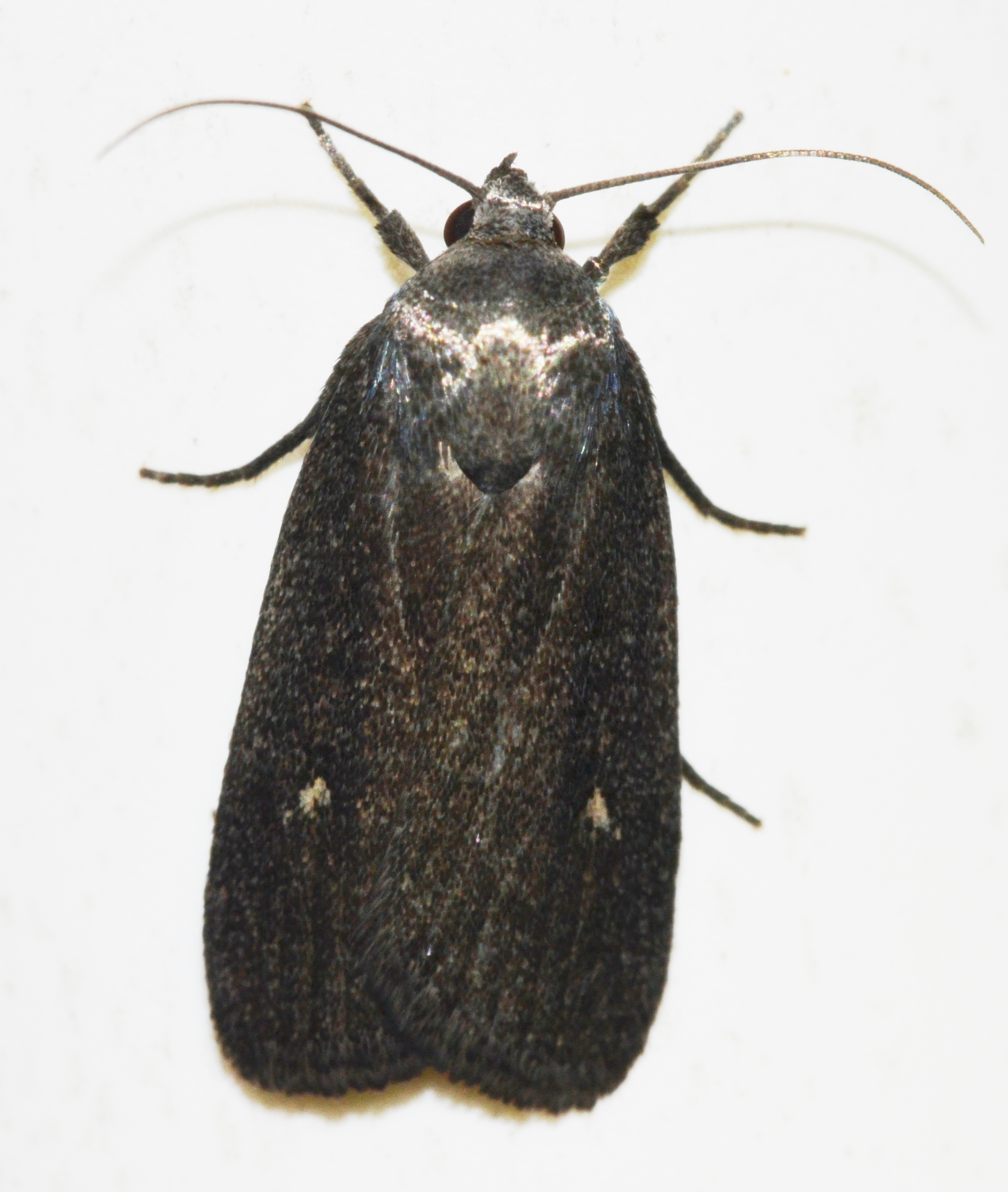 Mothing Night 7/10/14